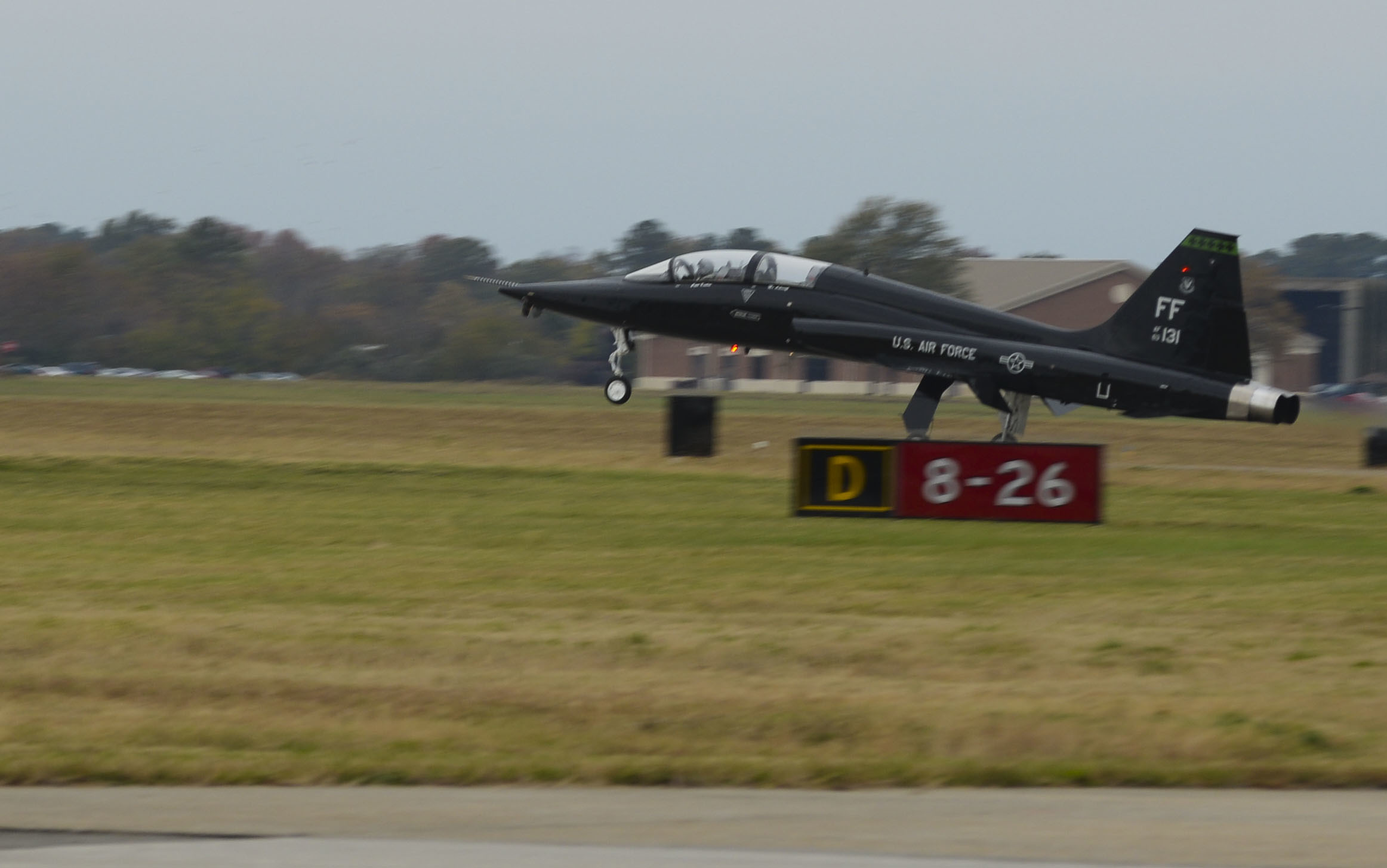 A T-38 Talon lands after a training mission at Langley Air Force Base, Va., Nov. 17, 2014. Talons team up with F-22 Raptors to act as enemy fighters during training missions. (U.S. Air Force photo by Senior Airman Austin Harvill/Released)